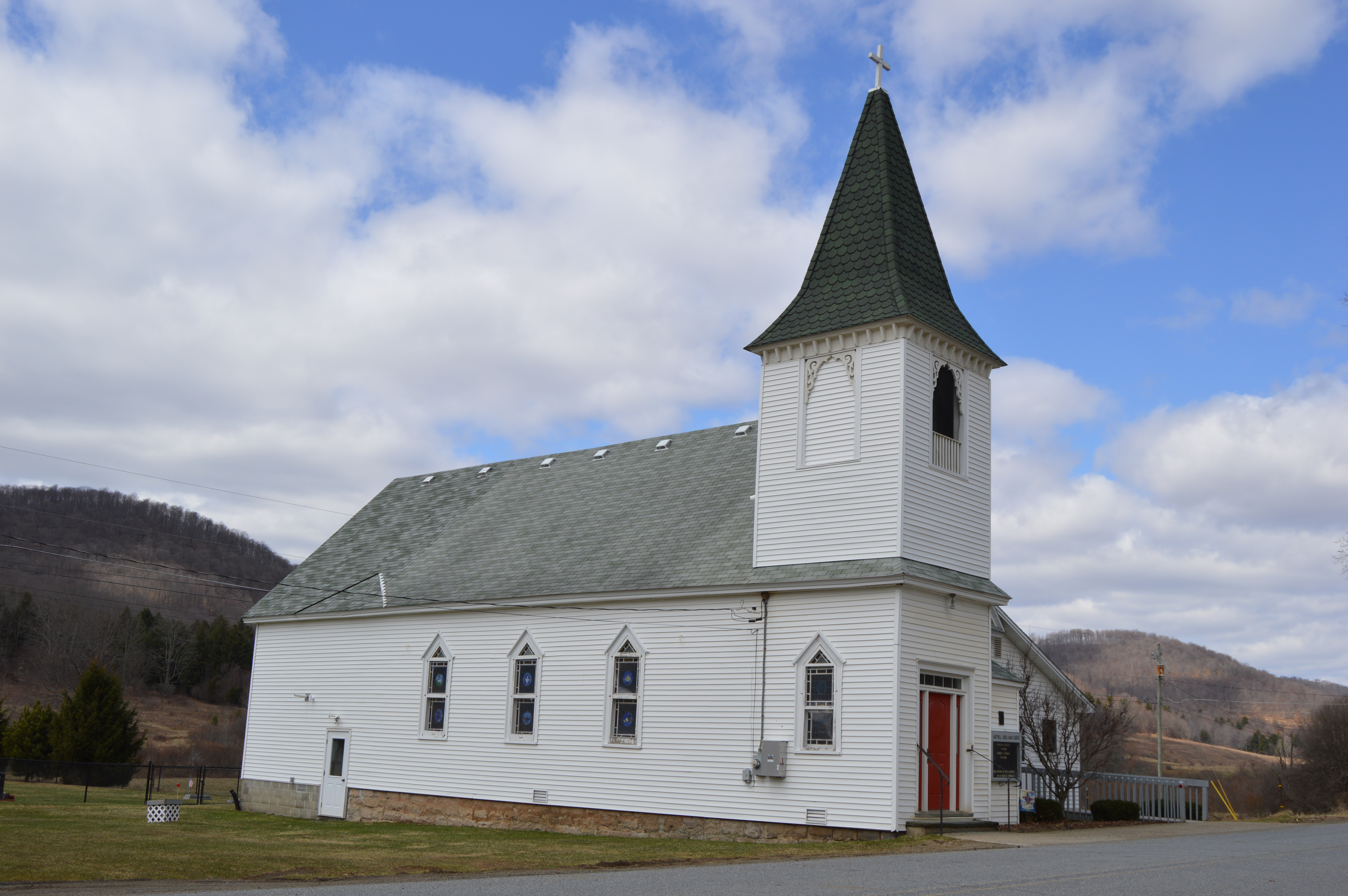 Front and southern side of the Sartwell Creek Union Church, located on Sartwell Creek Road east of Port Allegany in Pleasant Valley Township, Potter County, Pennsylvania, United States. It was built in 1896 and housed an EUB congregation (Methodist, post-1968) until the 1990s.